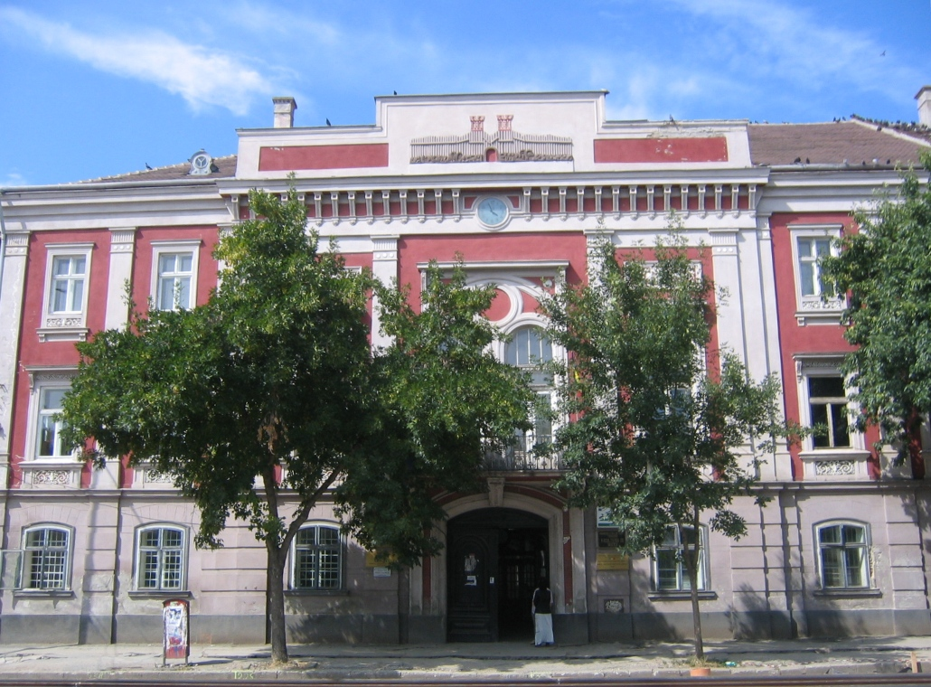 The Old Town Hall of Timisoara, Romania